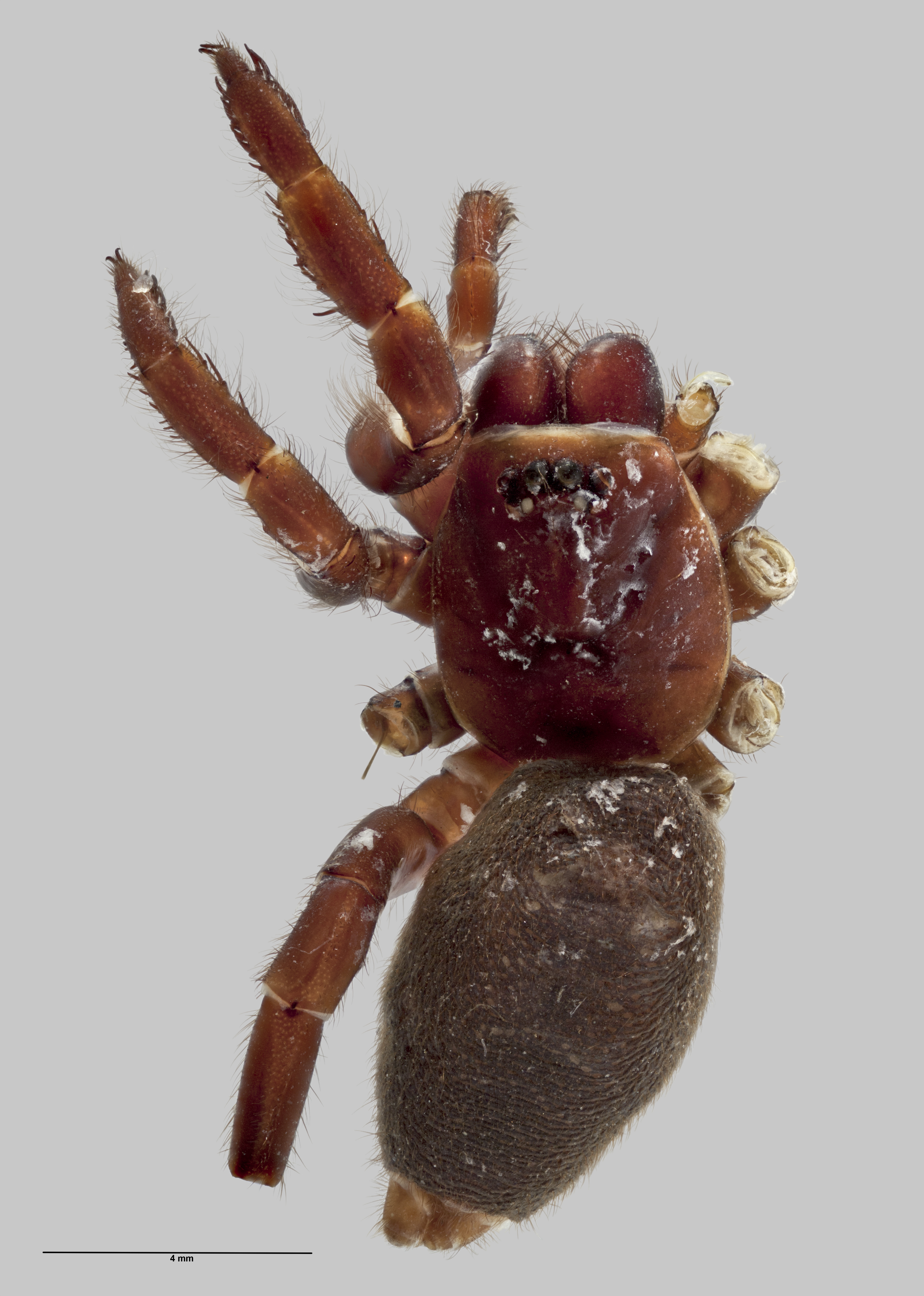 Female holotype specimen of Migas borealis AMNZ5059 held at the Auckland War Memorial Museum.